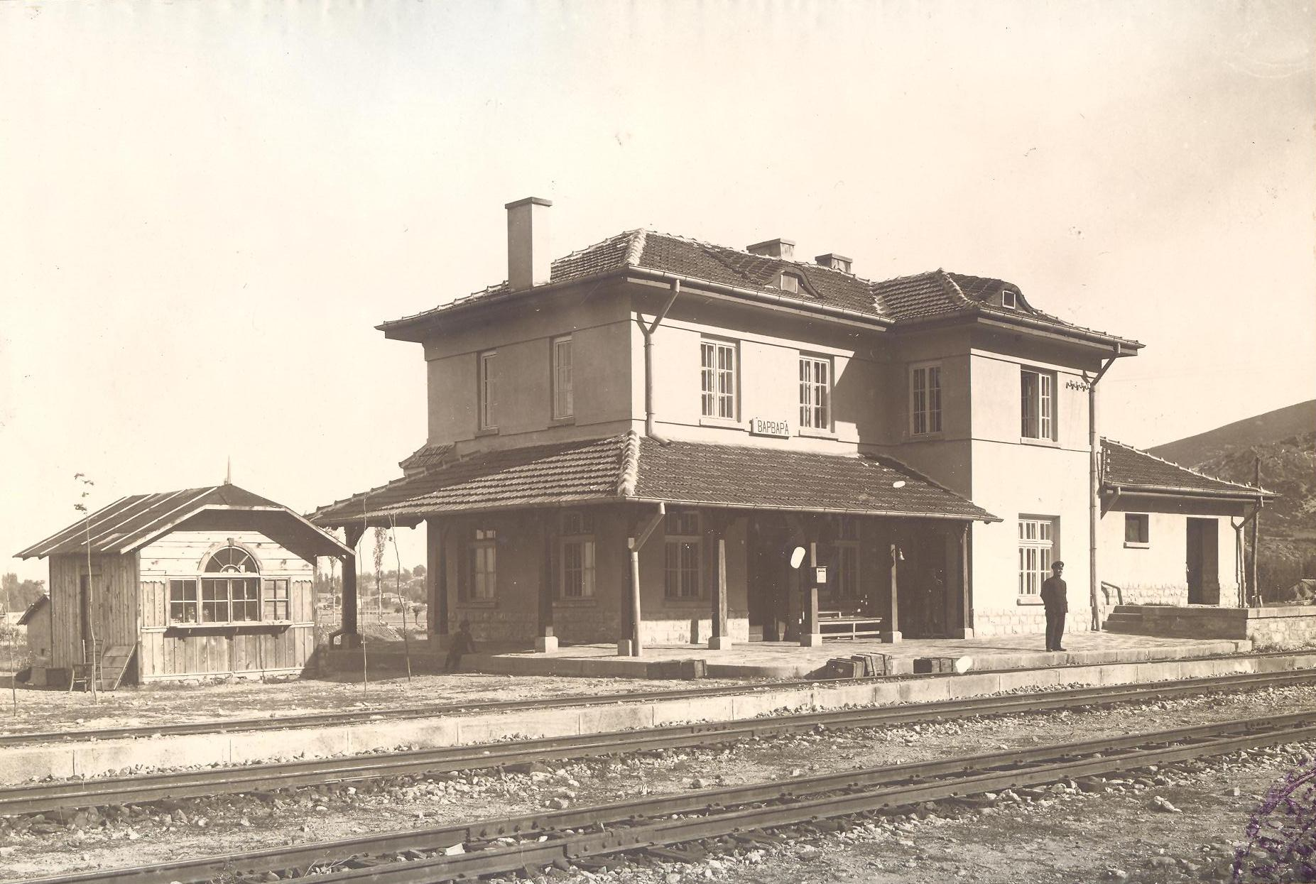 Varvara Railway Station, Septemvri-Dobrinishte narrow gauge line, Bulgaria, 1928